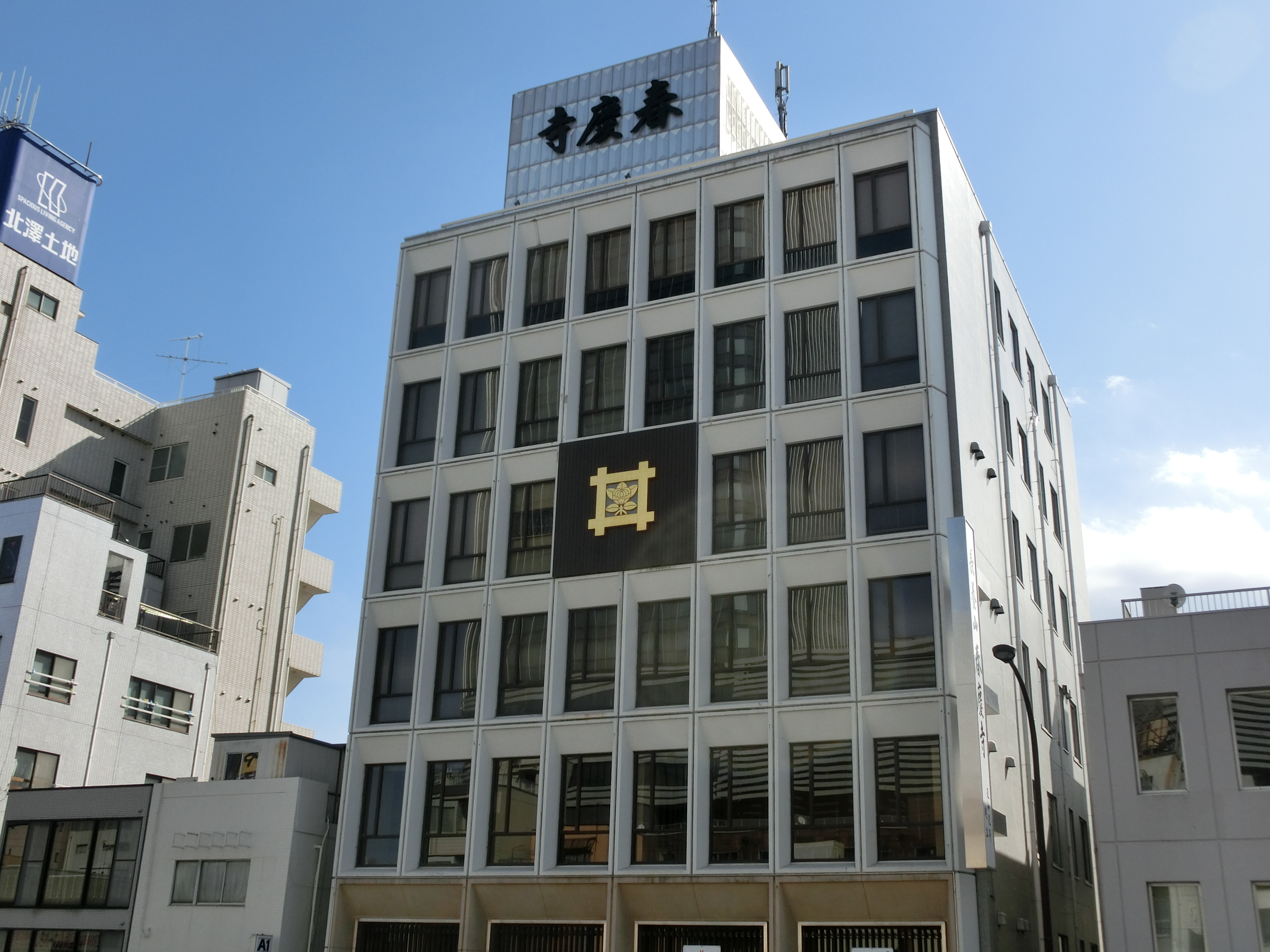 Shunkei-ji (Sumida)